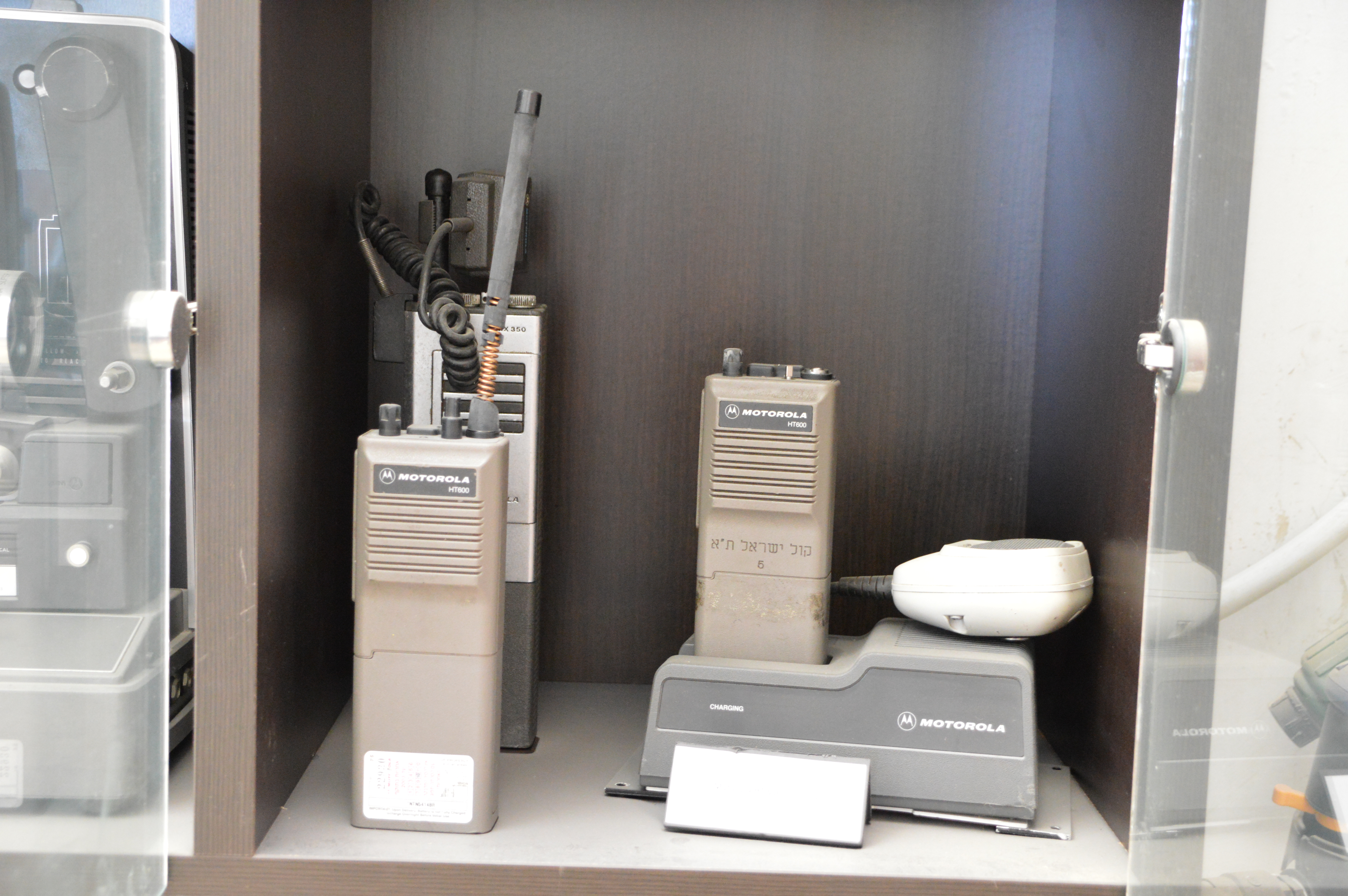 Israel Broadcasting service at Shaarei Tsedek